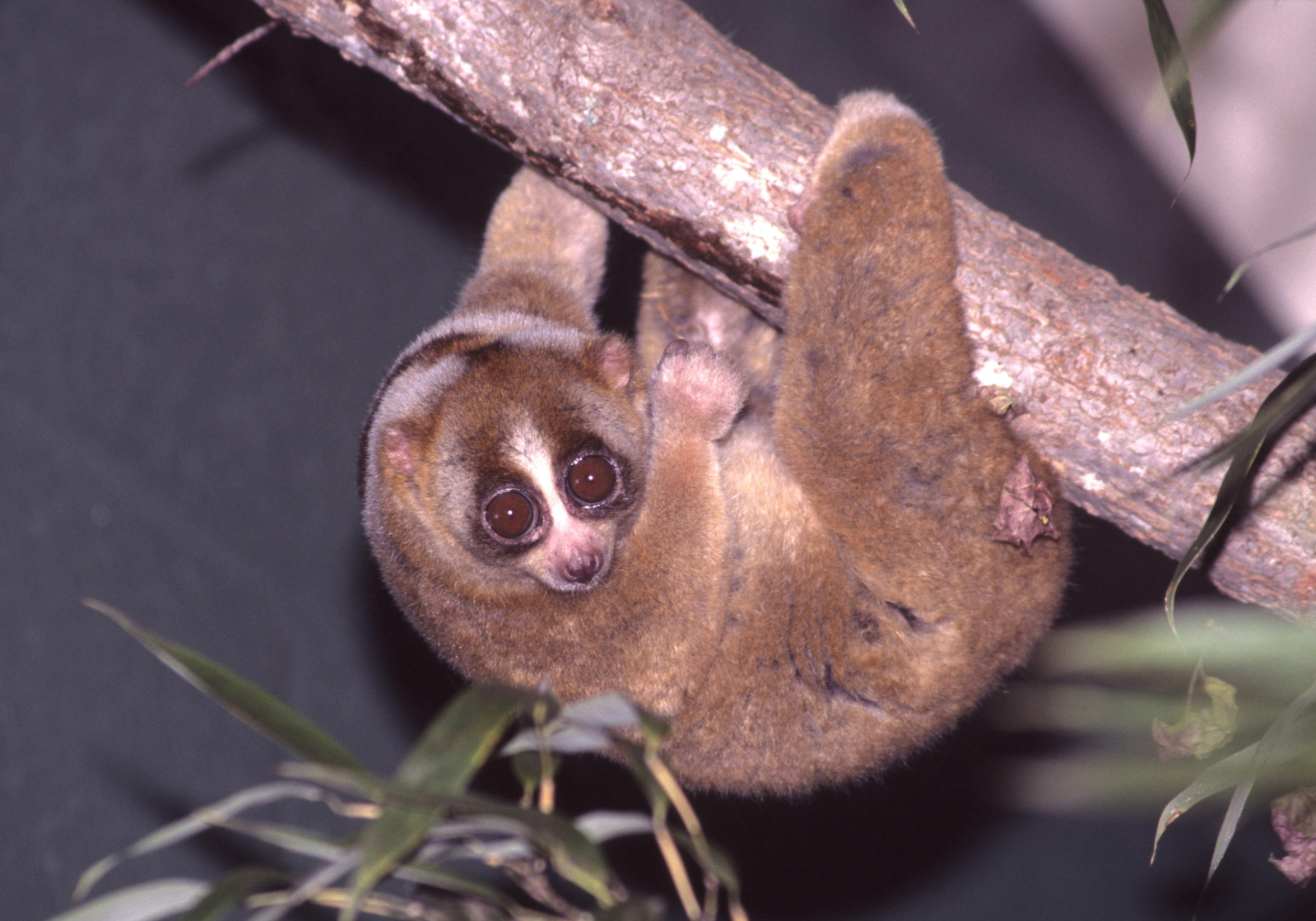 A Sumatran Sunda Slow Loris (Nycticebus coucang) dangling from a tree branch at the Duke Lemur Center in Durham, North Carolina.